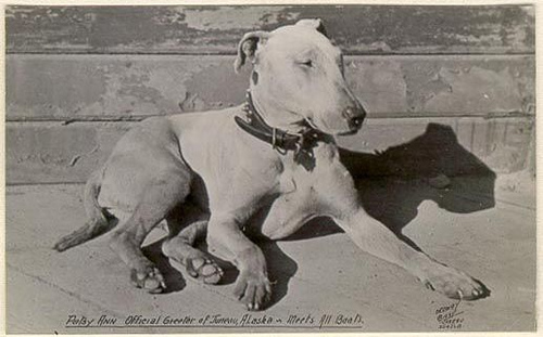 Original caption: “Patsy Ann, official greeter of Juneau, Alaska – Meet All Breeds”. Bull Terrier Patsy Ann's story.